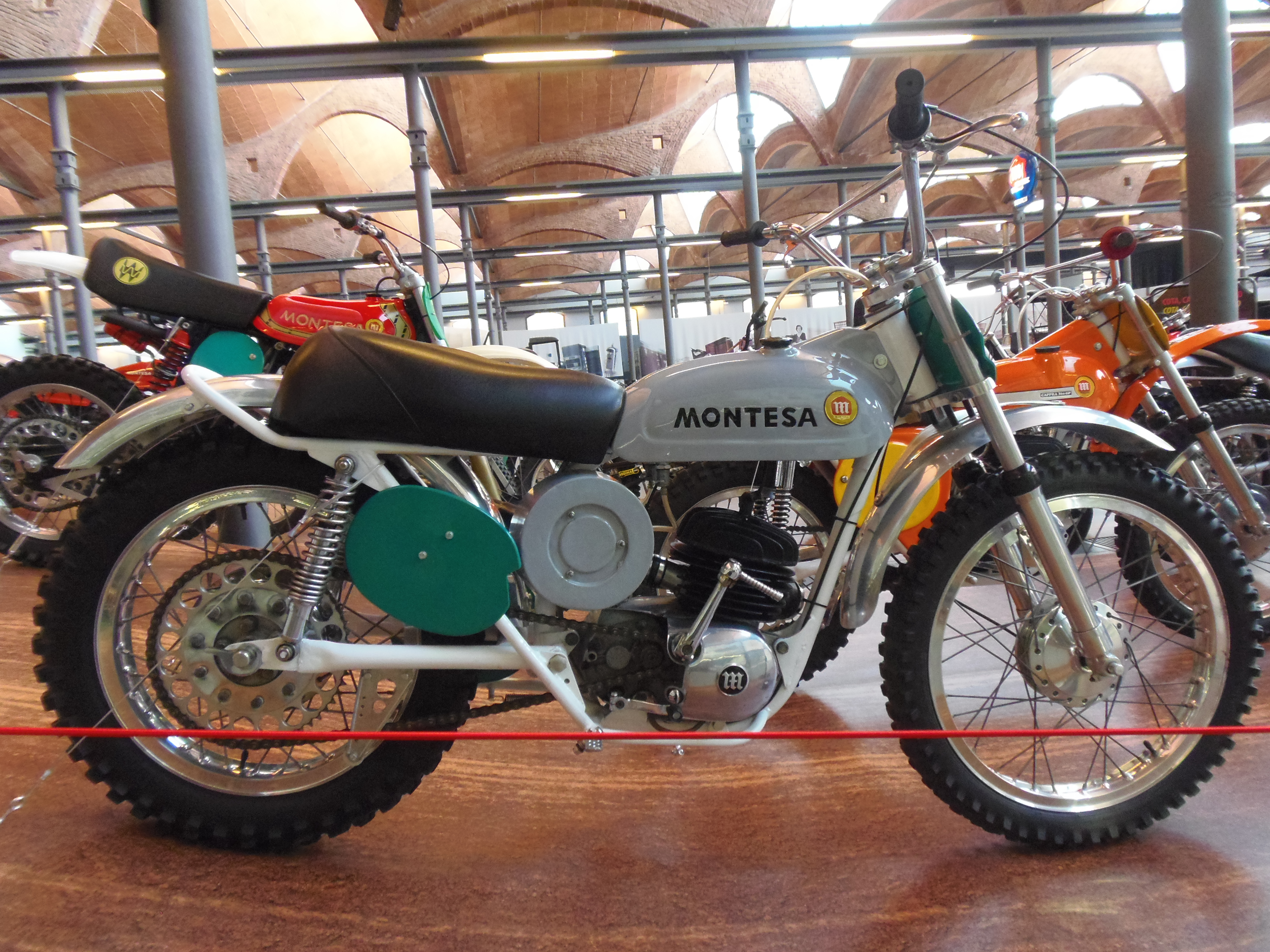 Montesa Cappra 250 MX, 1971. On a bike like this, Kalevi Vehkonen was 4th in the 1972 World Championship.